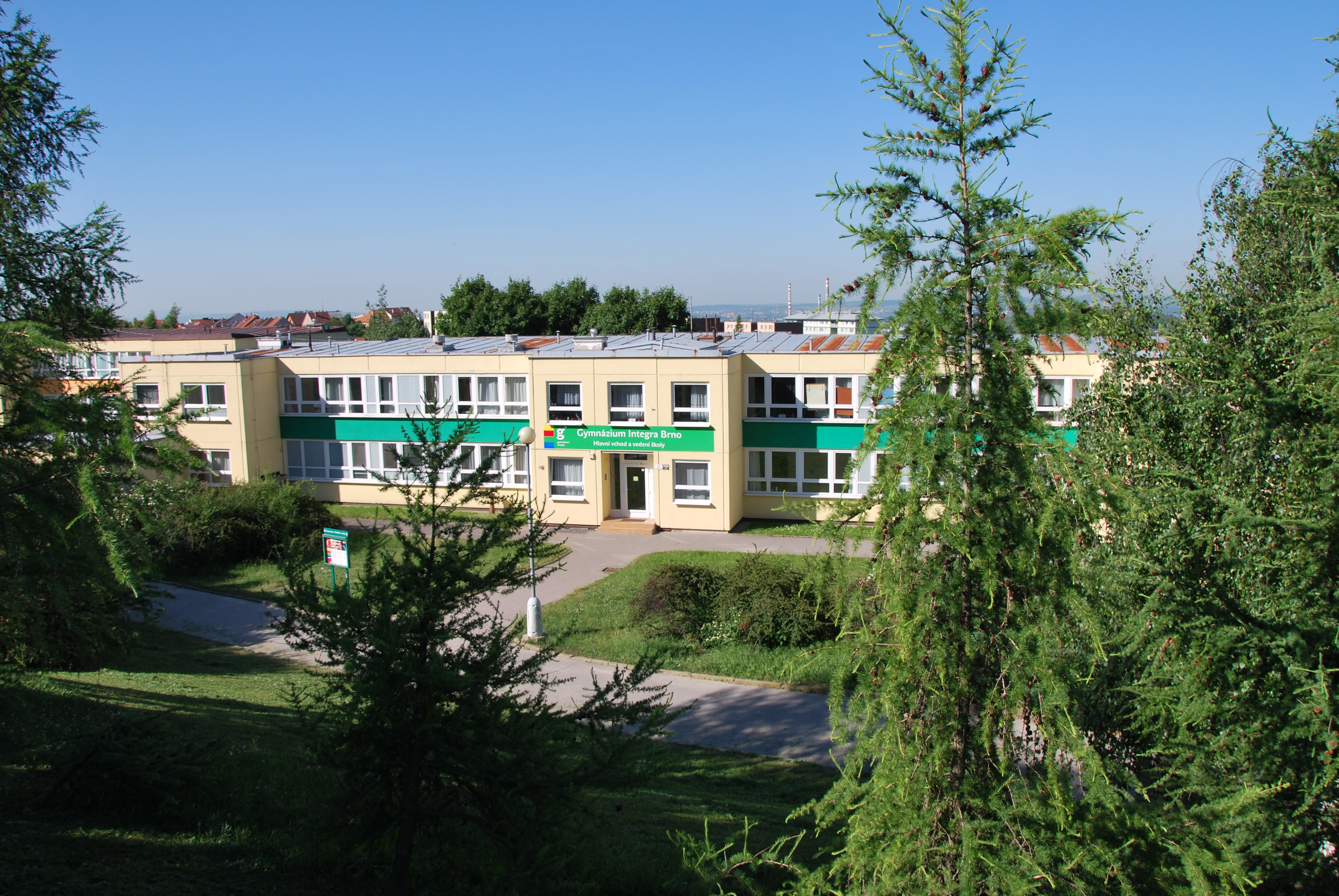 Gymnázium INTEGRA BRNO